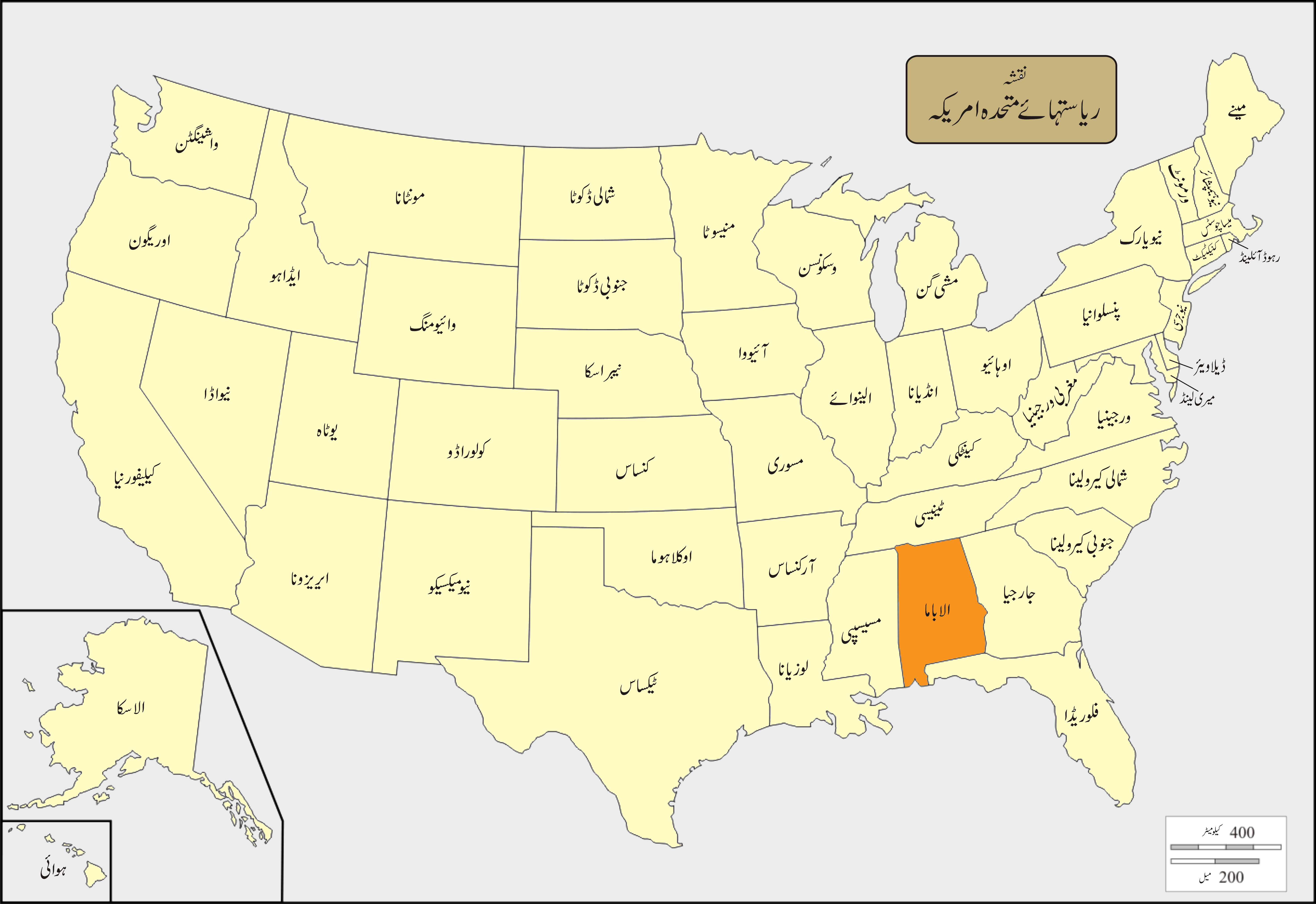 USA Names Alabama